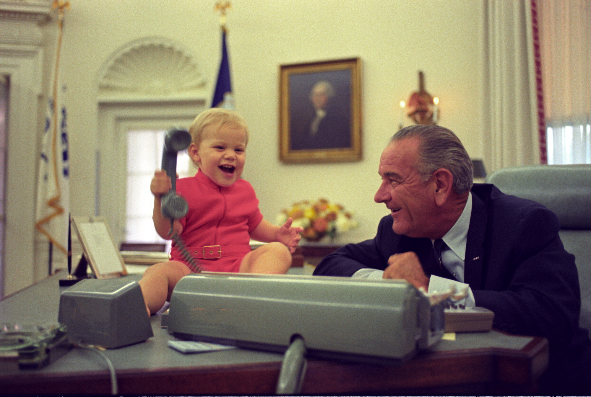 President Lyndon B. Johnson watches his grandson play with the telephone